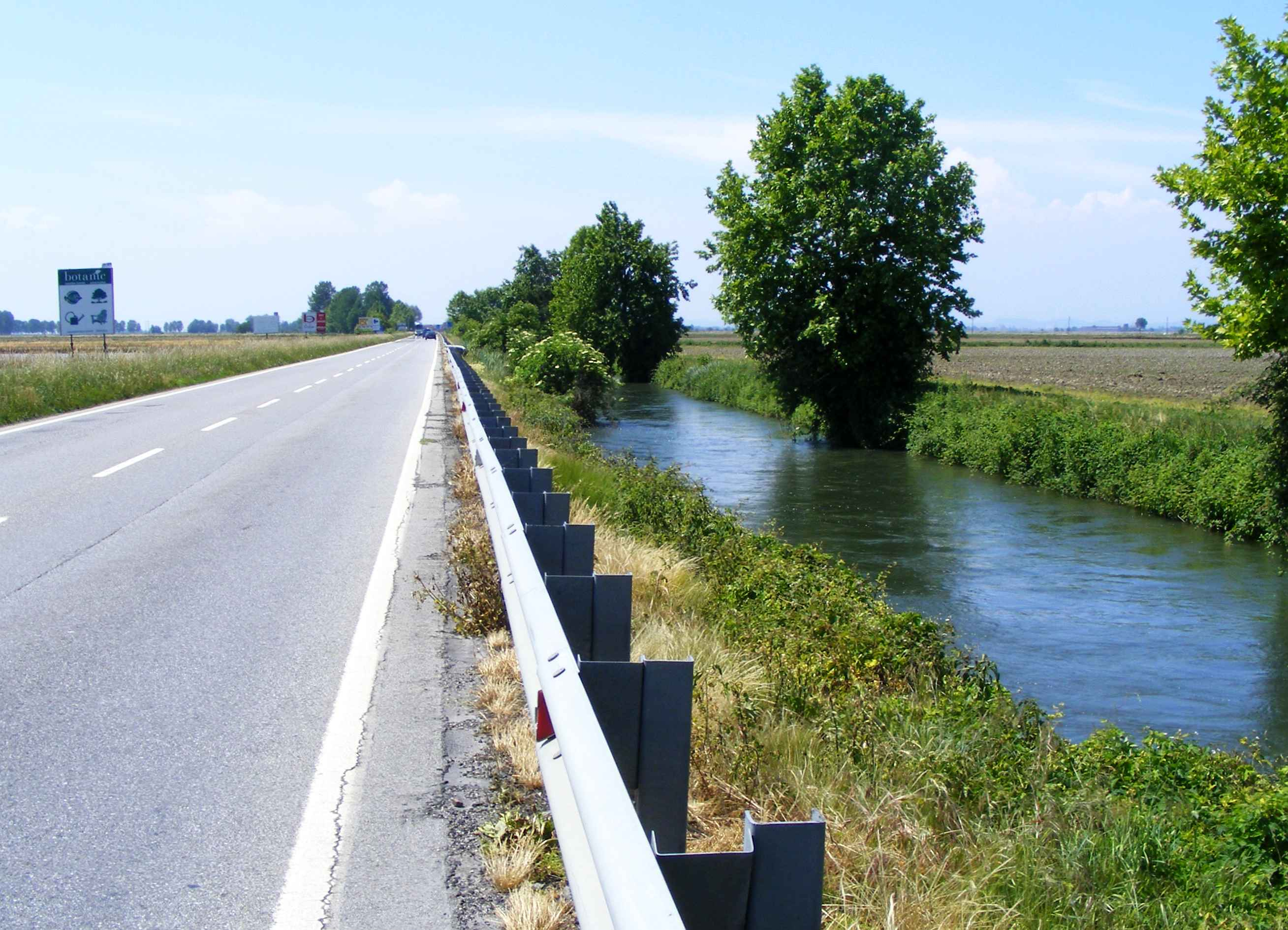 Naviglio diIvrea between Vercelli and San Germano Vercellese; on the left former national road nr.11 Padana Superiore (VC, Italy)